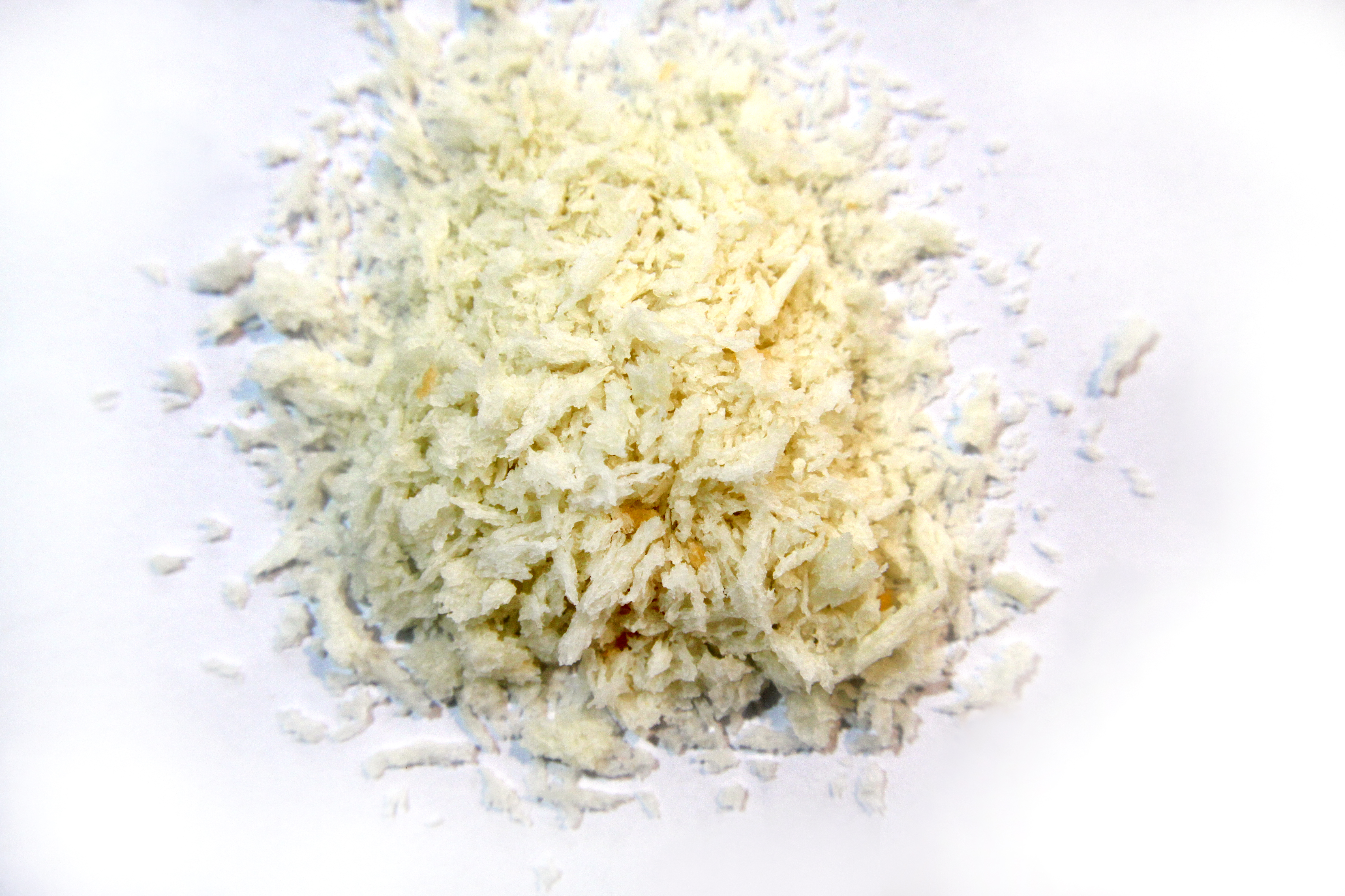 File name: 970610-IMG 7021-2-Panko-White-1 Date: September 1, 2018 Thanks to Aftab Tejarat Negin (ATN) Company